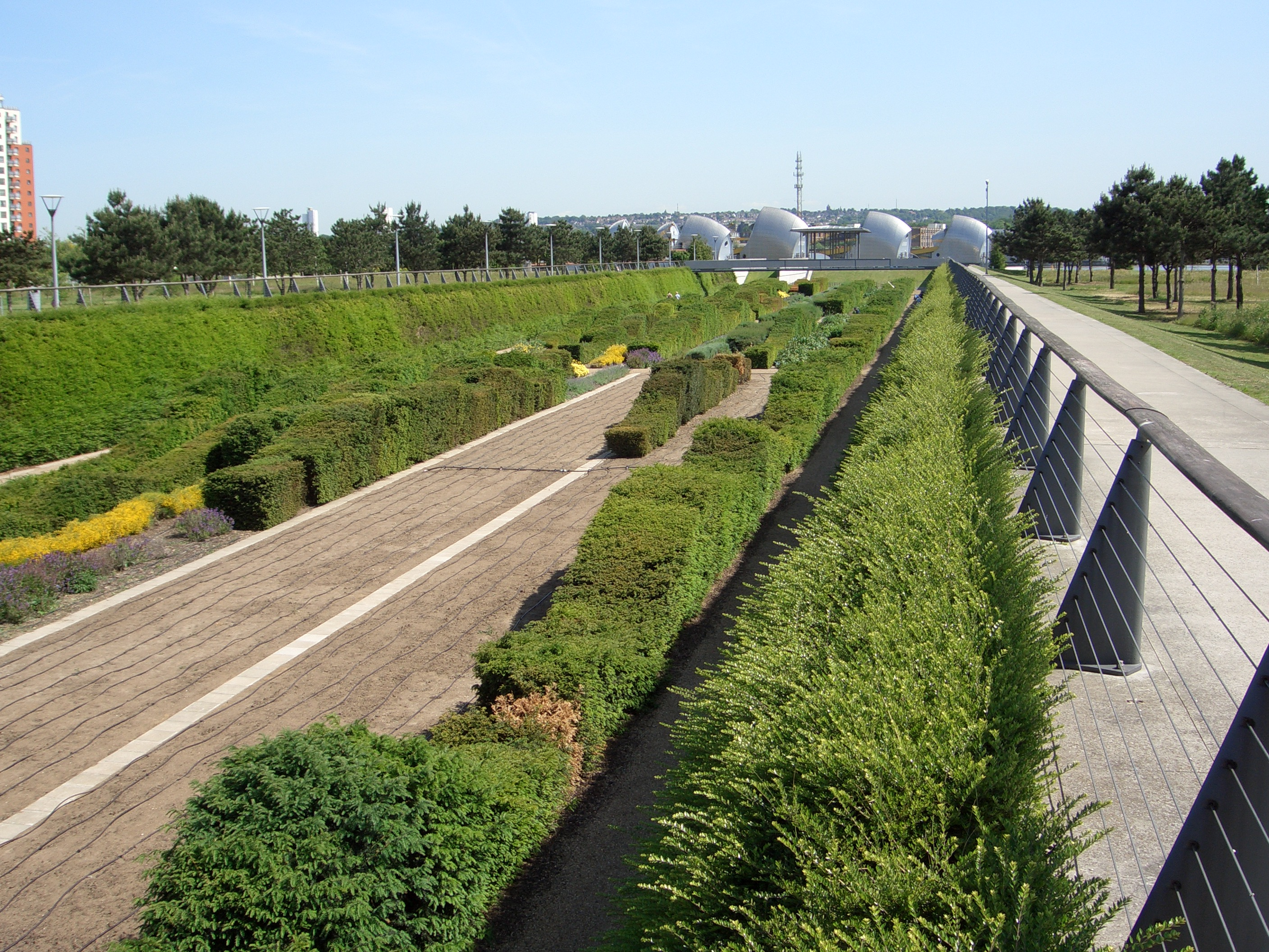 Topiary at Thames Barrier Park - London. Taken in the Thames Barrier Park in summer 2005, looking across the park towards the barrier.